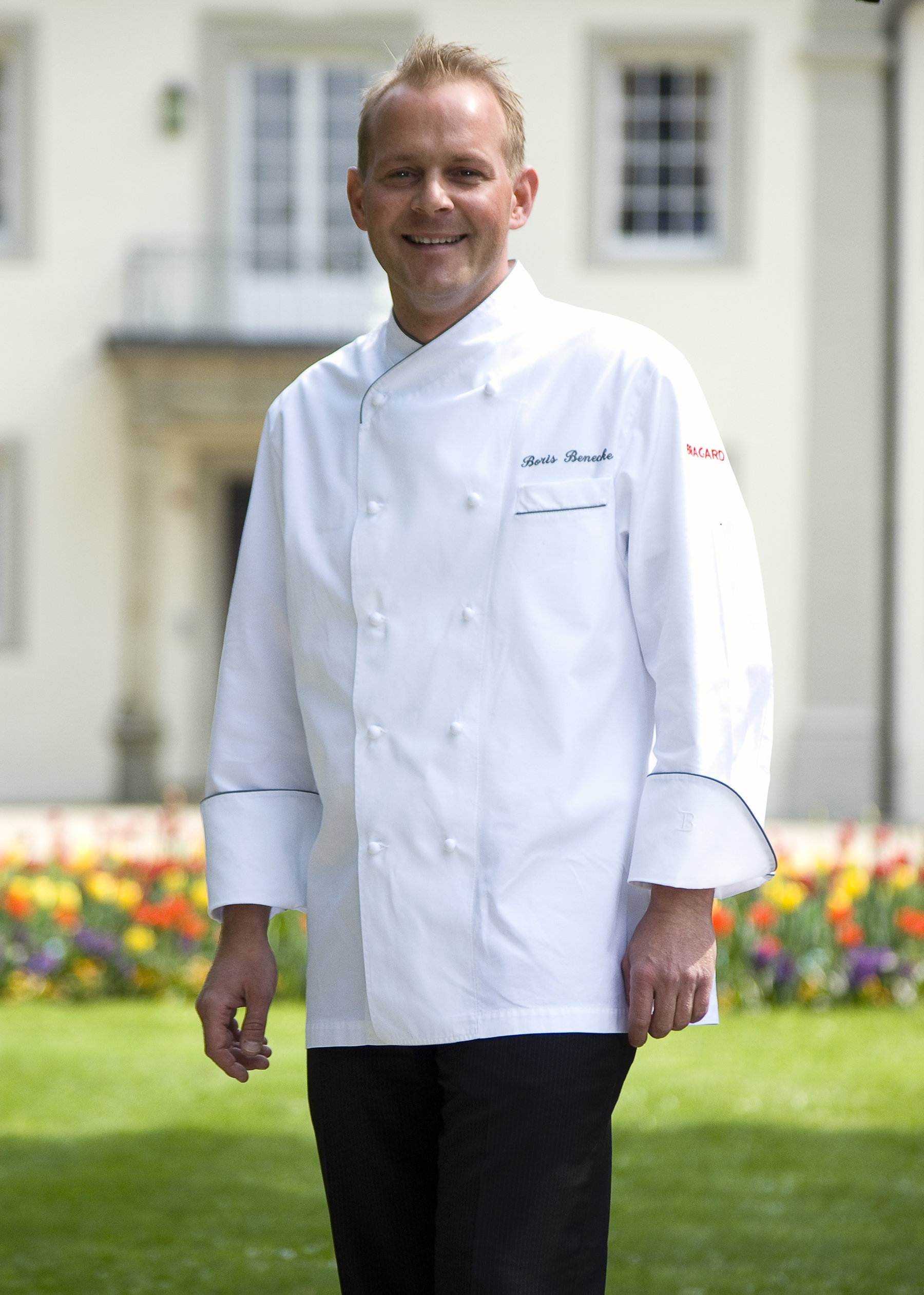 Boris Benecke